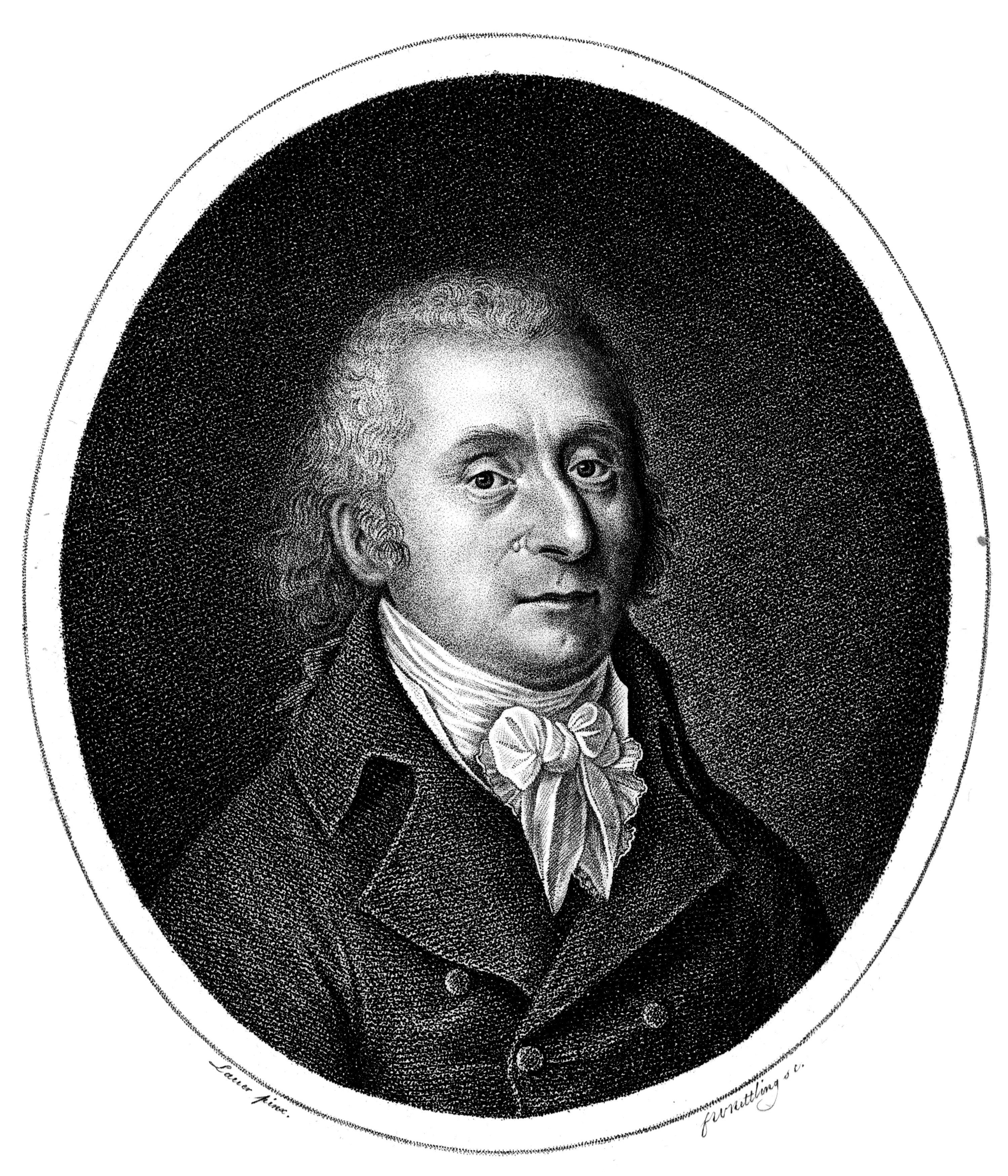 Depicted person: Franz Anton Hoffmeister